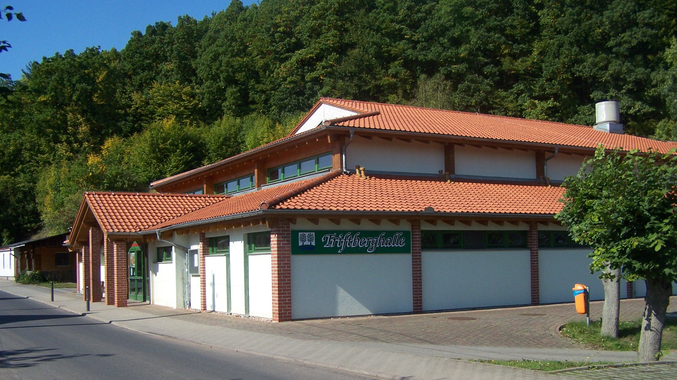 The Triftberg-Halle in Mosbach.